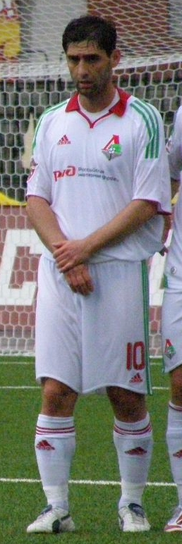 Davit Mujiri in action for FC Lokomotiv Moscow